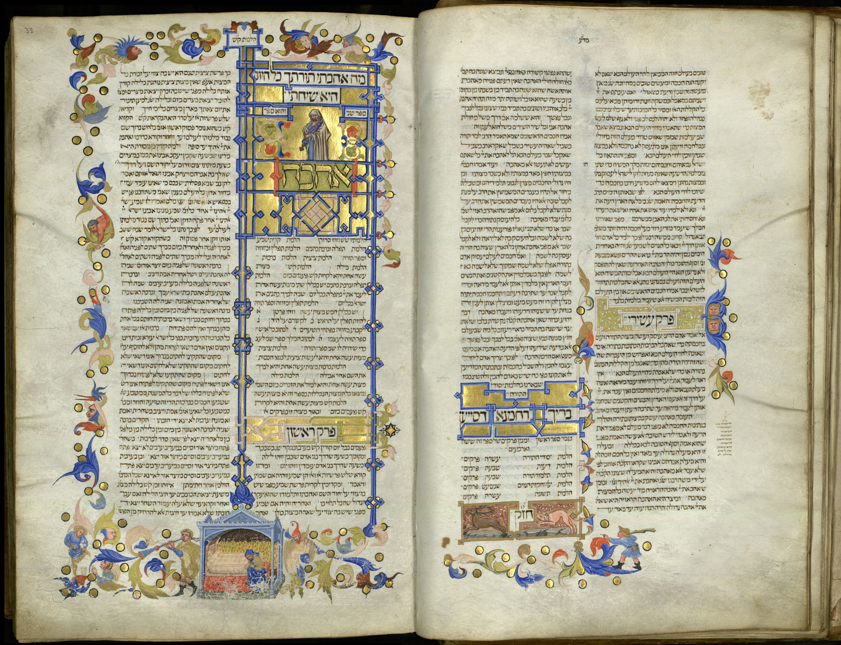 Mishneh Torah (Maimonides, 1180), copied in Spain, illuminated in Perugia, c. 1400 (Elie Kedouri, The Jewish World, 1979, p. 193). Illuminated Hebrew manuscript. Jerusalem, Jewish National and University Library of Israel, MS. HEB. 4*1193. "A typical decorated opening page for the "Book of Love [of God]." The illustration on the top initial-word panel shows a man embracing a Torah scroll. In the lower margin another man is reciting the shema before going to bed. This is one of the most sumptuous manuscripts of the Mishneh Torah. In the absence of colophon, it can be inferred from the script that the manuscript was copied either in Spain or southern France in the first half of the 14th century (in any case, before 1351, when the codex was sold in Avignon). The scribe's name was probably Isaac, since this name is decorated in several places in the text. The manuscript was illuminated in burnished gold and lively wash colors by a skilled non-Jewish artist of Perugia, Matteo di Ser Cambio" ("Illuminated Manuscripts" by Bezalel Narkiss, Encyclopedia Judaica, Jerusalem 1969).